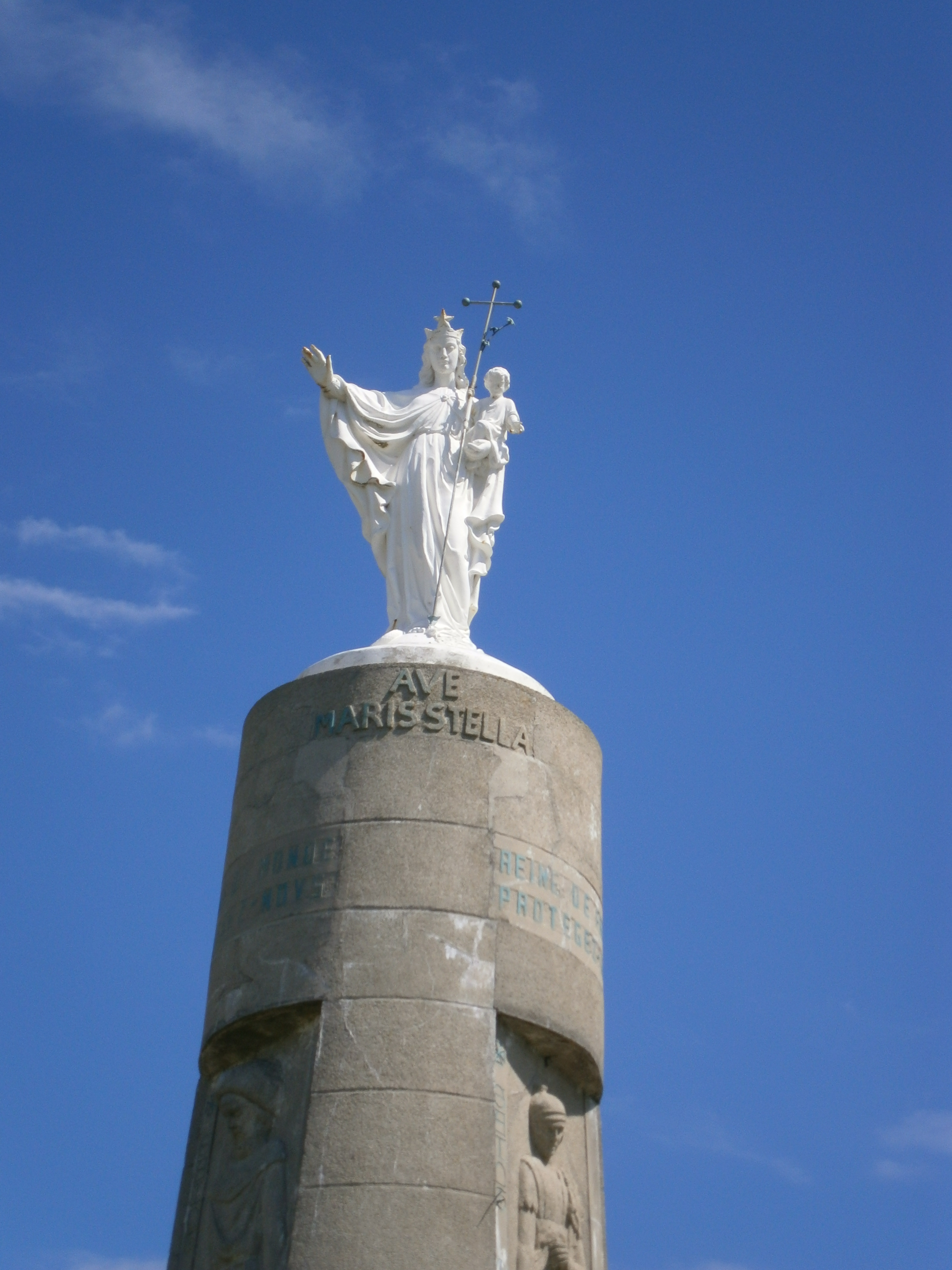 Notre Dame de la Falaise - Mers-les-Bains